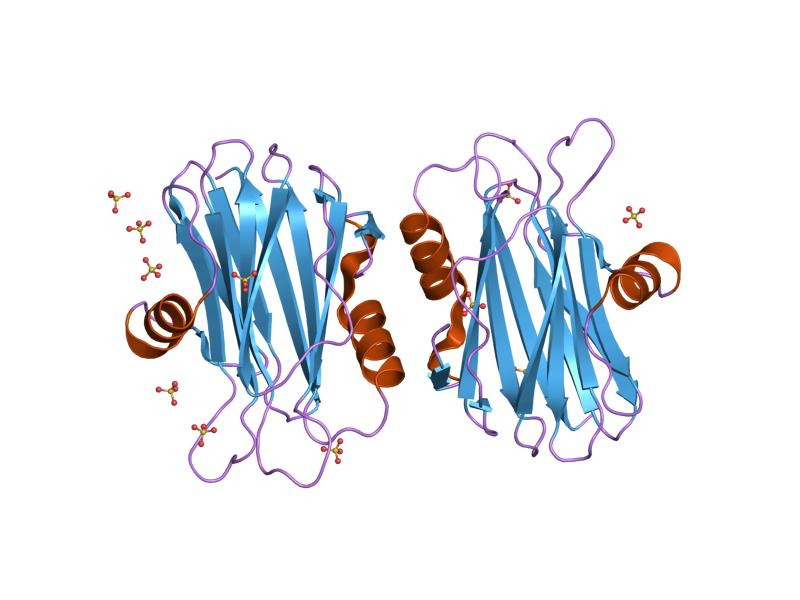 Cartoon representation of the molecular structure of protein registered with 1iaz code.